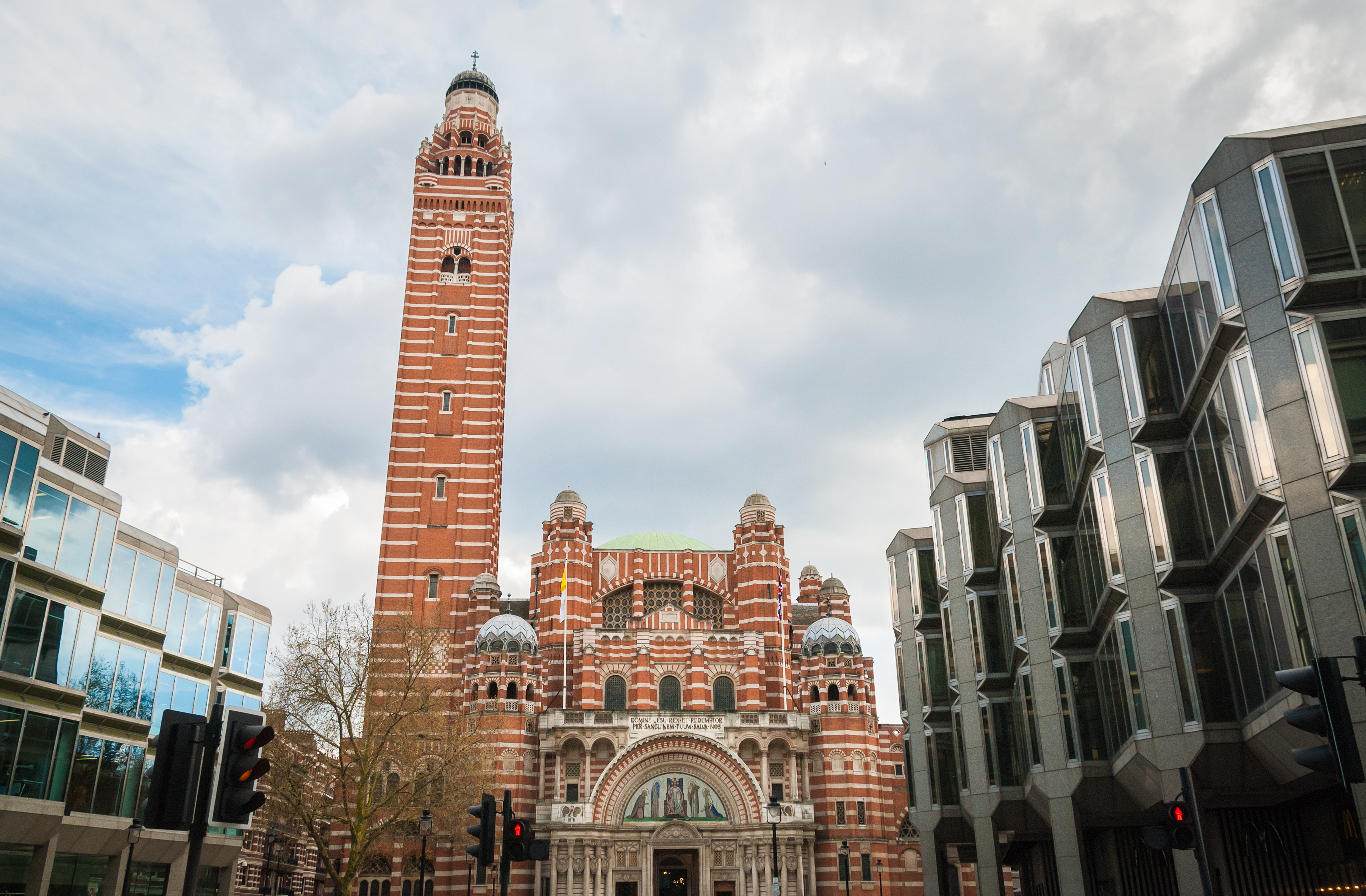 Westminster cathedral - this photo featured here